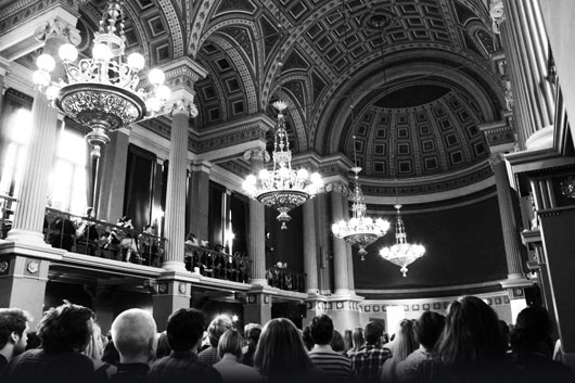 Studentafton in Lund 2011.